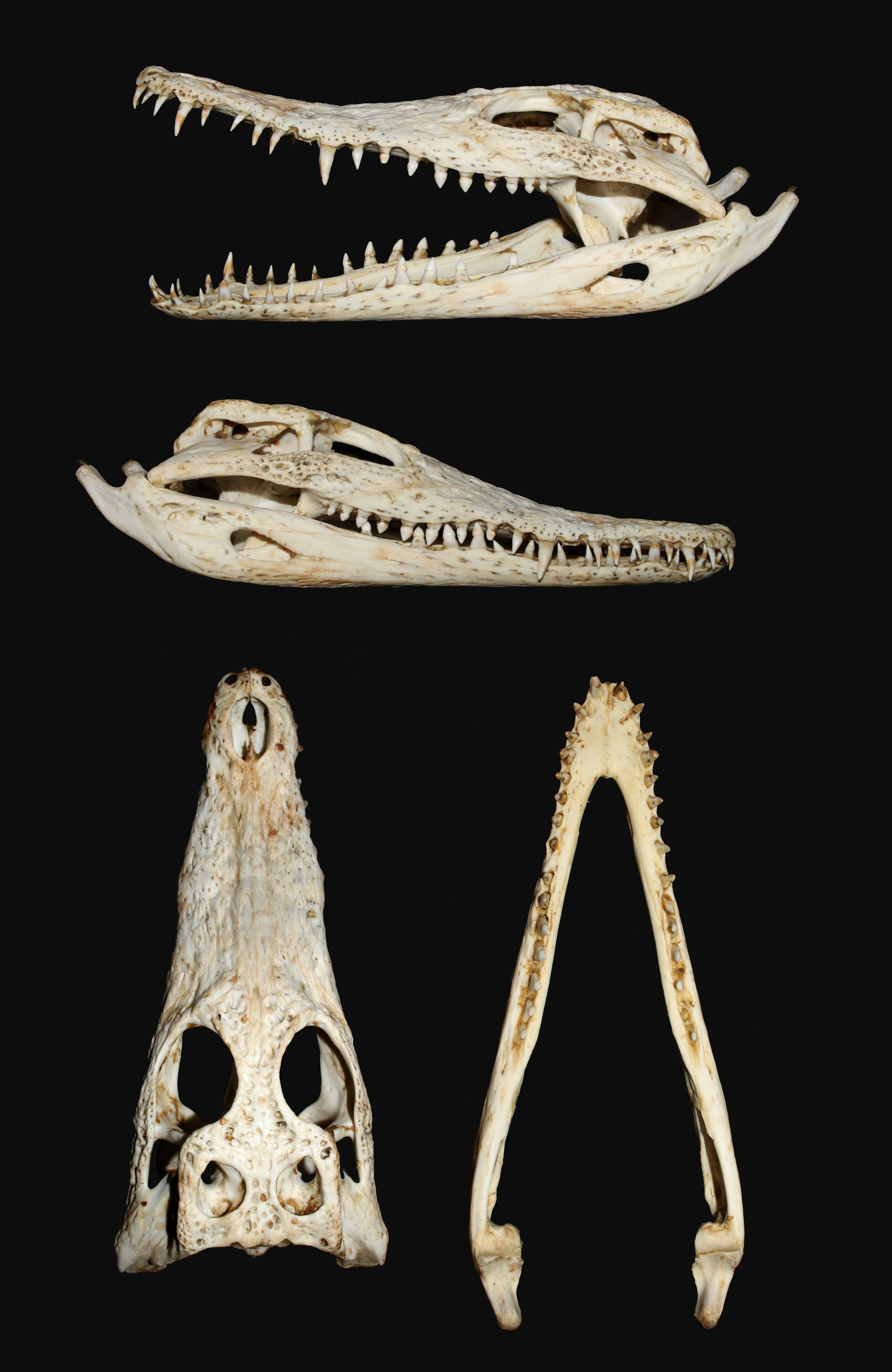 Juvenile Nile crocodile, skull, Crocodylus niloticus, Family: Crocodylidae